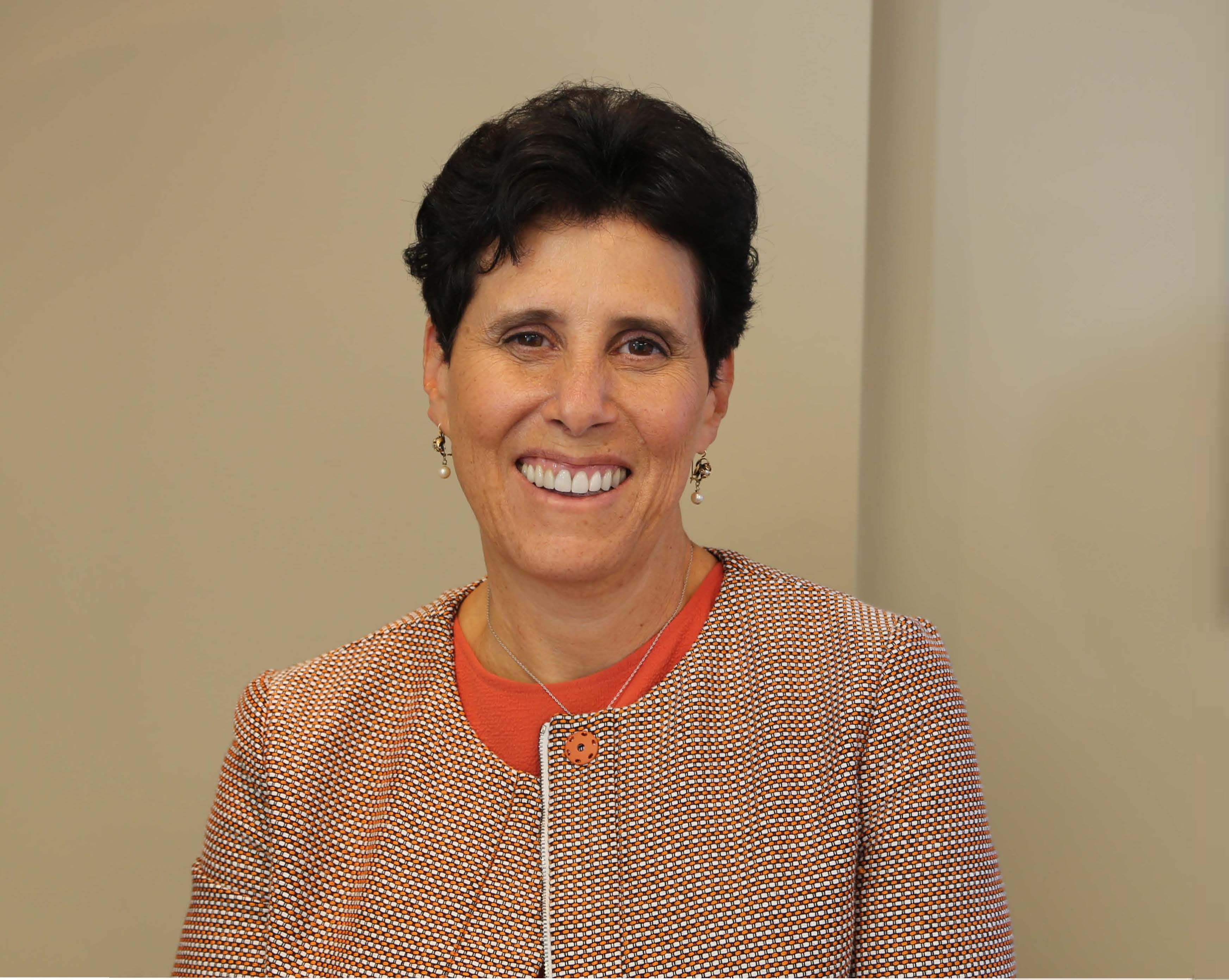 Attorney Debra Katz